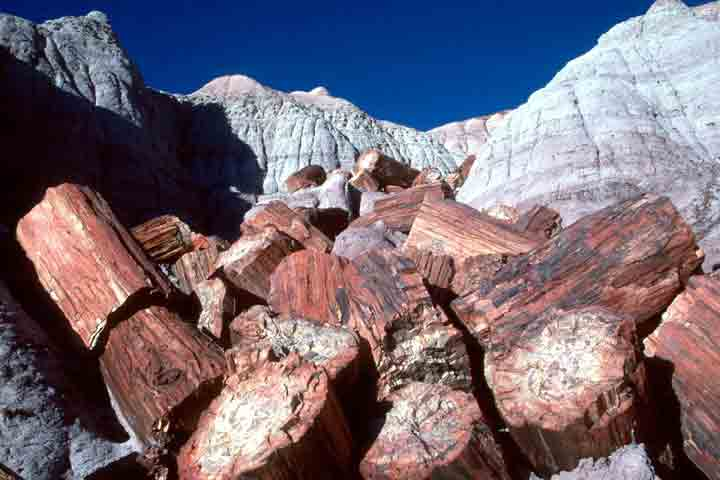 Logjam of Petrified tree trunks in the badlands, Petrified Forest National Park Wilderness